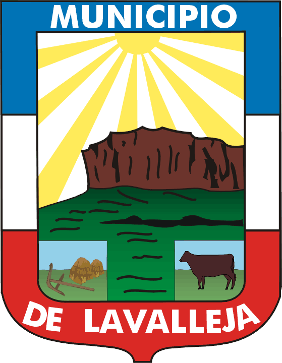 Coat of Arms of the Department of Lavalleja, Uruguay. Drawn by: Jordevi